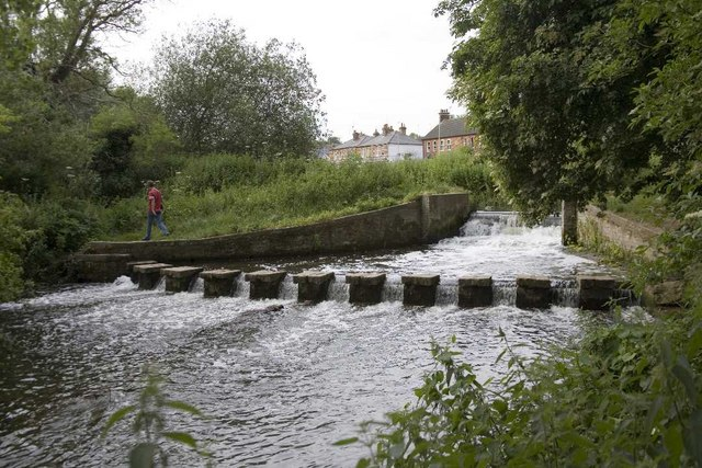 River Lea Waterfall at Batford. This waterfall was constructed by local volunteers in the 1970s and forms part of Batford Springs Local Nature Reserve. The area contains several small springs and was used as watercress beds in the 19th century. The waterfall is adjacent to Batford Mill on the B653.